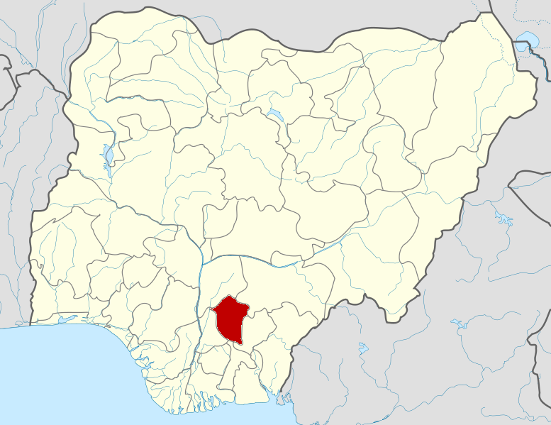 Map locator of Nigeria.